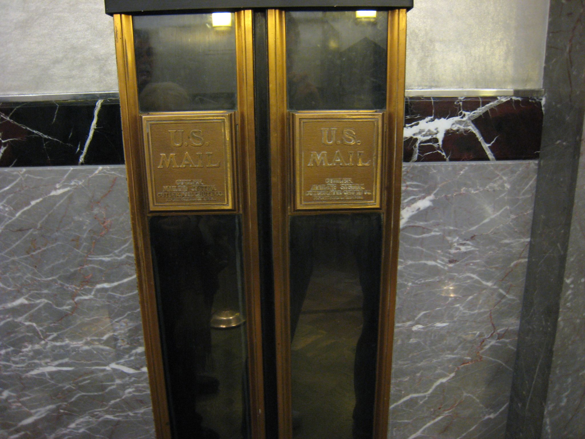 This old mail chute is in the Empire State Building.